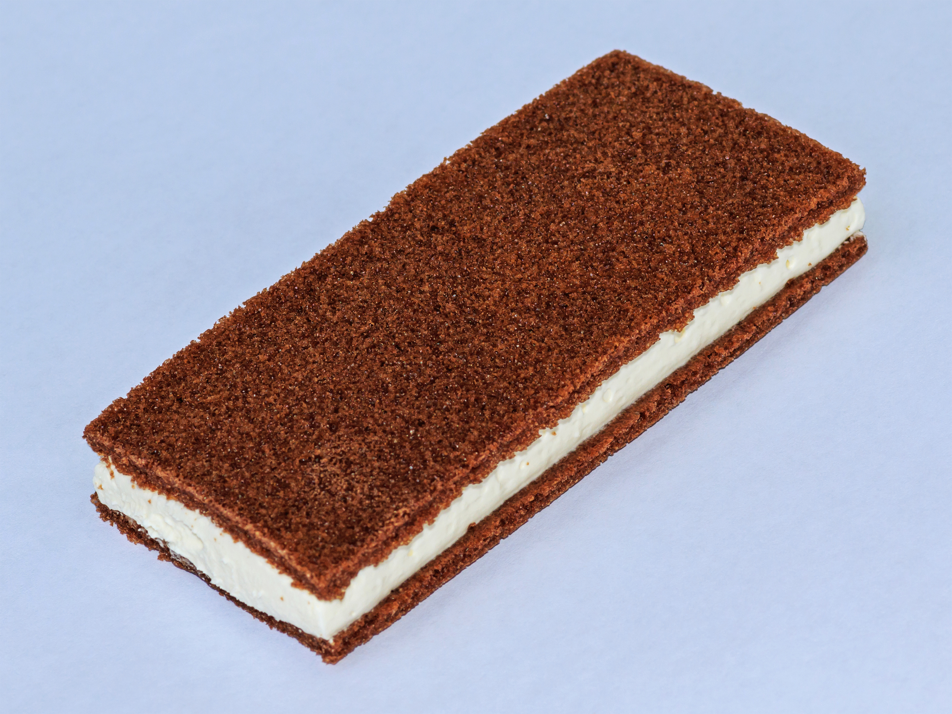 Milch-Schnitte is a milk-based cake by Ferrero